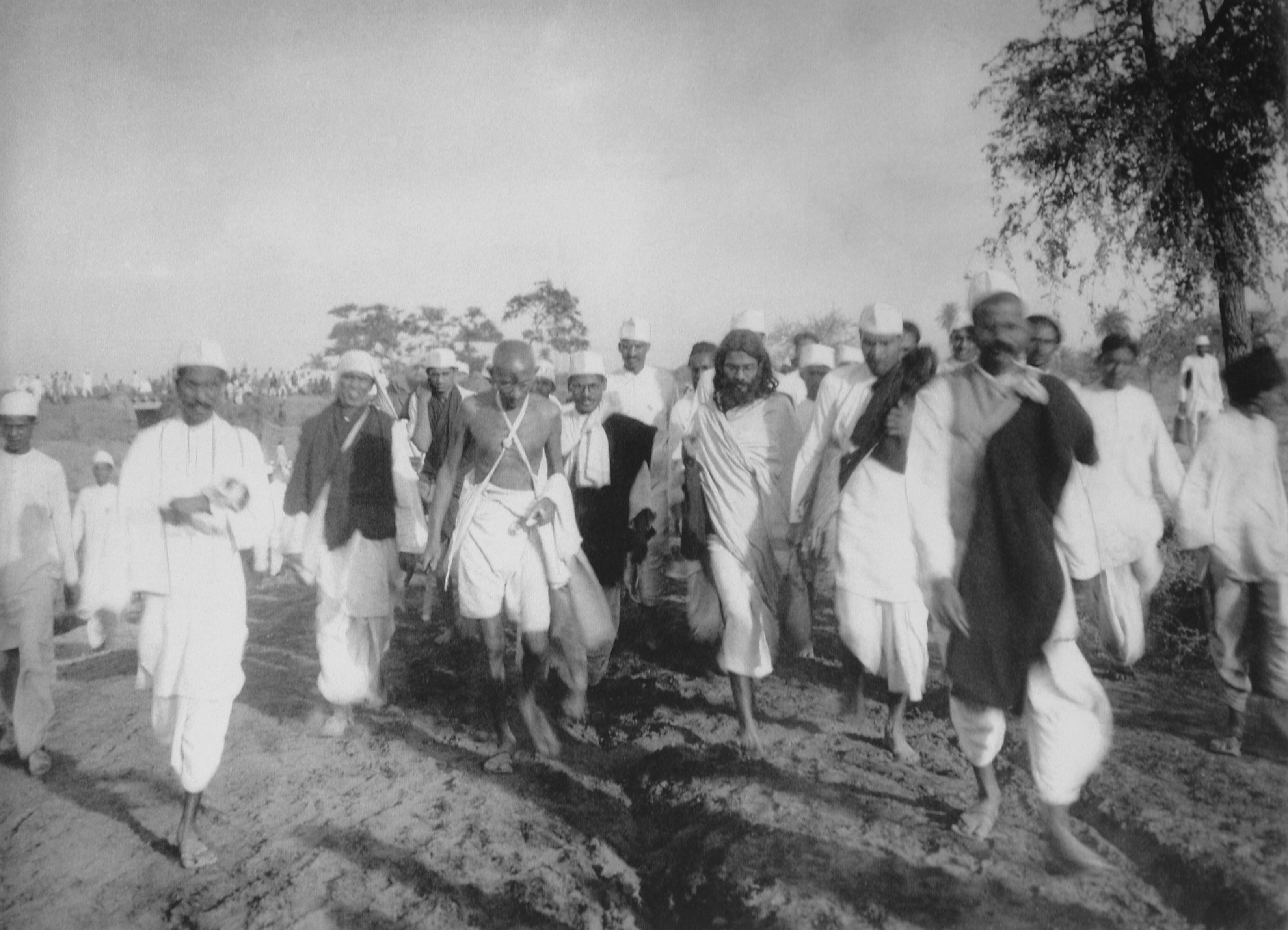 Gandhi during the Salt March, 1930.